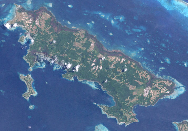 This image (Landsat7) shows the island Pana Tinani in the Louisiade Archipelago, Papua New Guinea. Near the west coast there are shown (from north to south) other islands: Hevaisi, Pana Wina and Wanim.